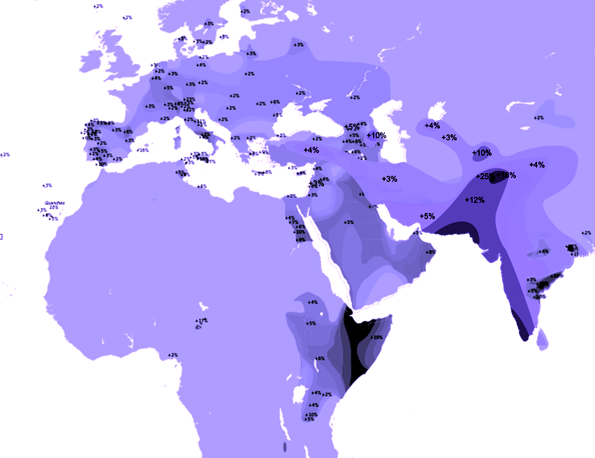 The modern distribution of Haplogroup LT (L298-P326). As LT* has never been identified this map shows the frequency of subclades within haplogroups L-M20 and T-M184.